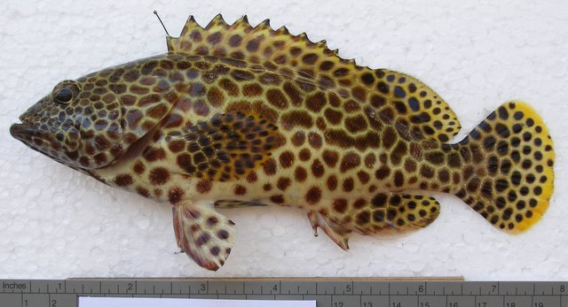 Epinephelus merra (Serranidae, Epinephelinae). Locality: Rocher à la Voile, Nouméa city, New Caledonia. Fork Length 190 mm, Weight 114 grams. Date 2005-11-16.